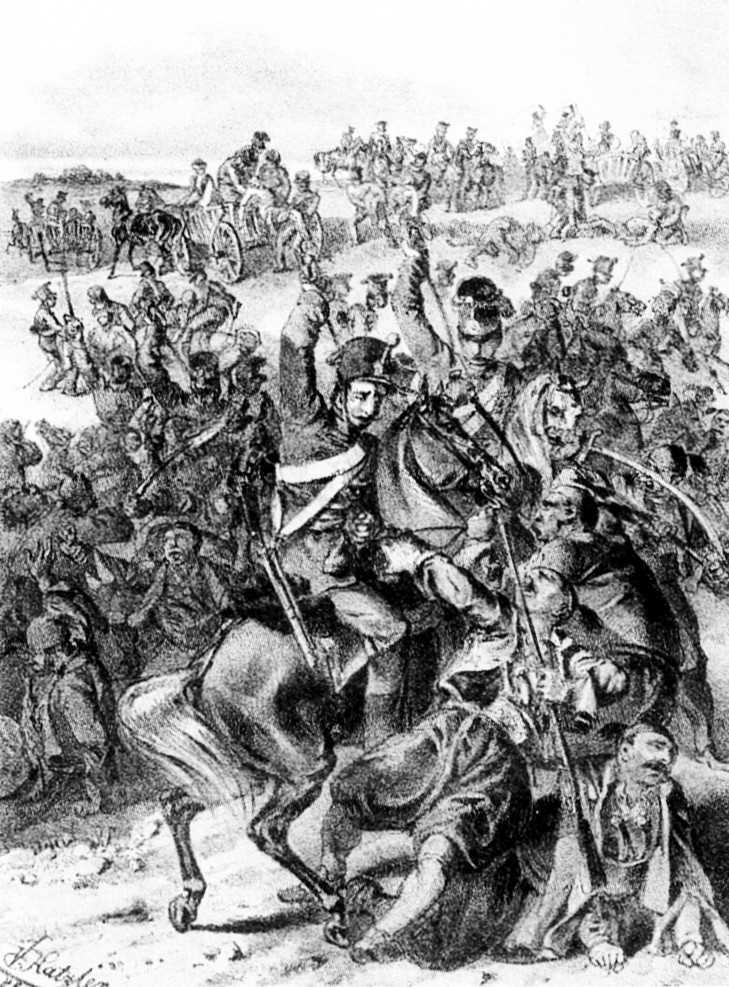 Battle of Vilovo, between army of Serbian Vojvodina and Hungarian army, May 1849